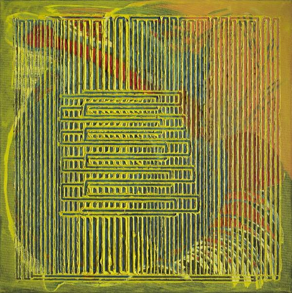 superman's nightmare, 2005, oil on canvas, 100cm x 100cm, magnetic paint displacement (Magnetic Painting)